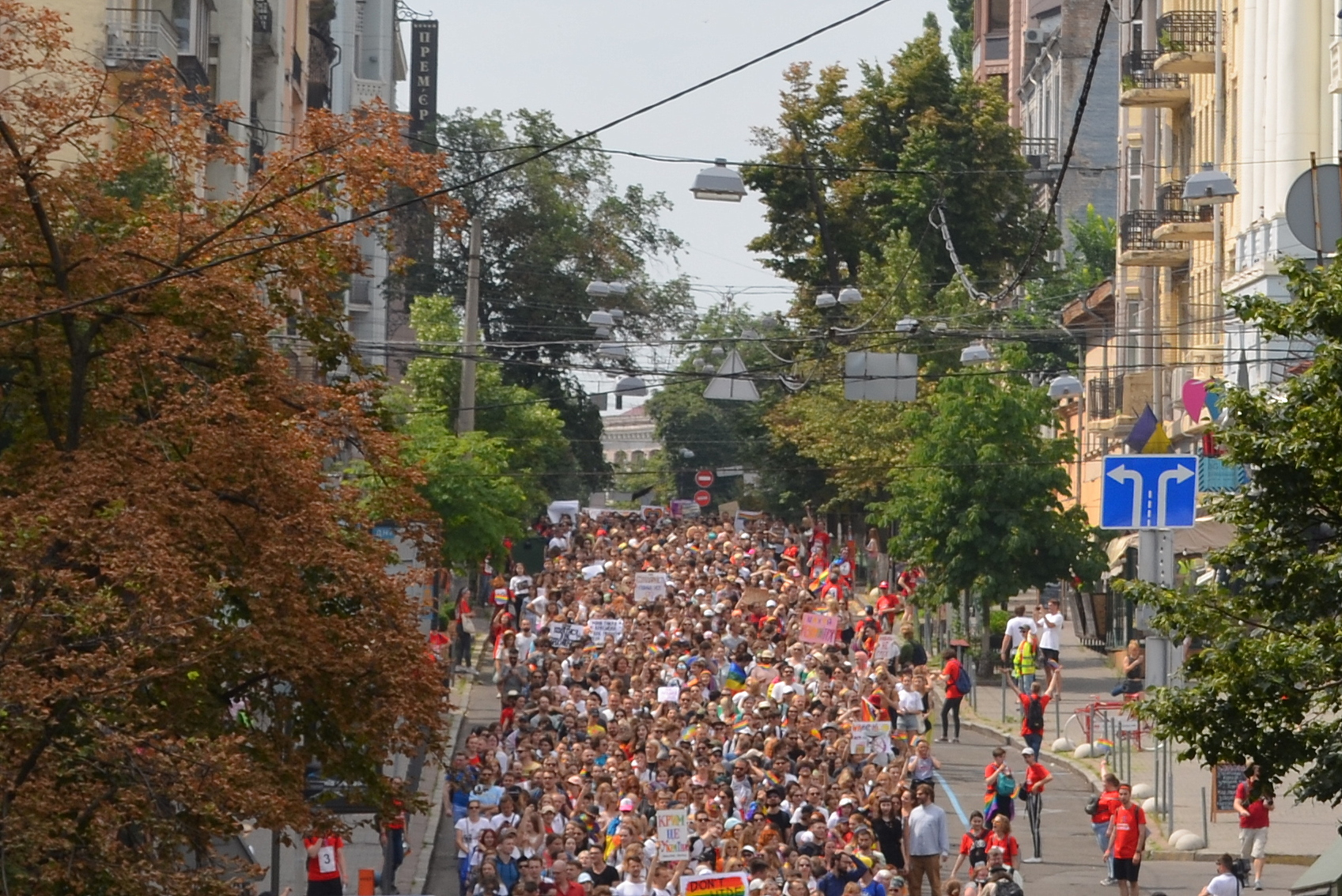 Kyiv Pride 2019Location: Ukraine Event type: Kyiv Pride 2019, June 23 Date or year: 2019-06-23